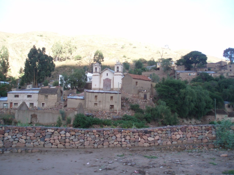 Vista de la iglesia de Tacobamba